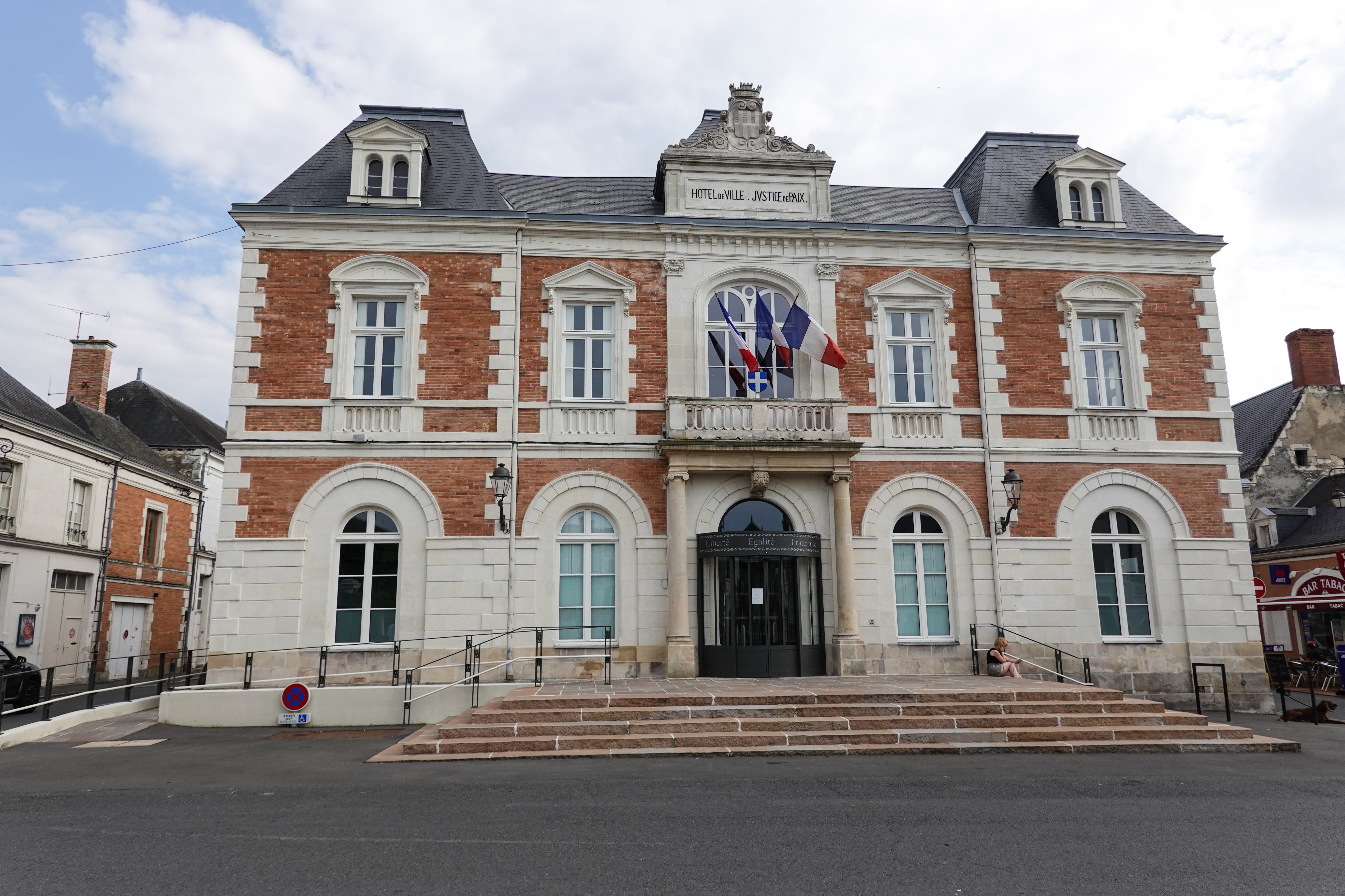 Hôtel de Ville, Le Lude, France